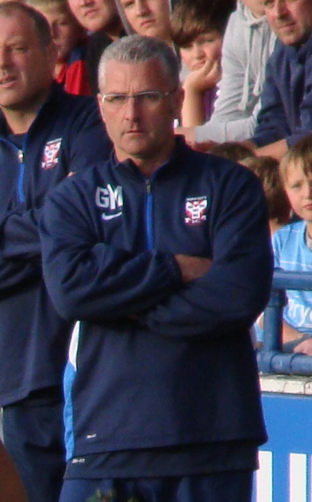 Gary Mills during York City's match against Sunderland at Bootham Crescent, York on 13 July 2011